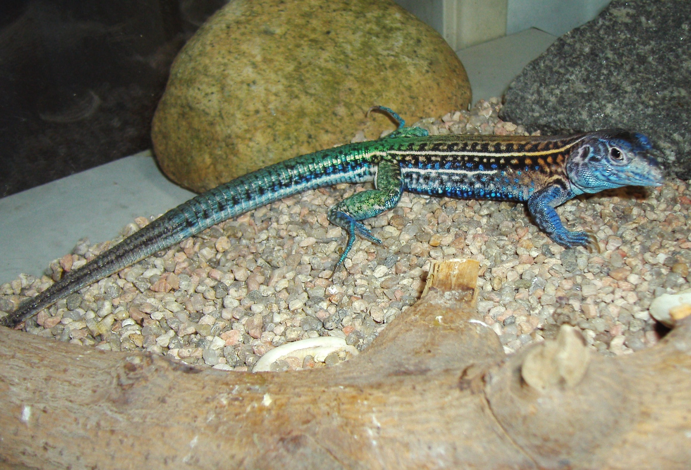 Teius Teyou macho